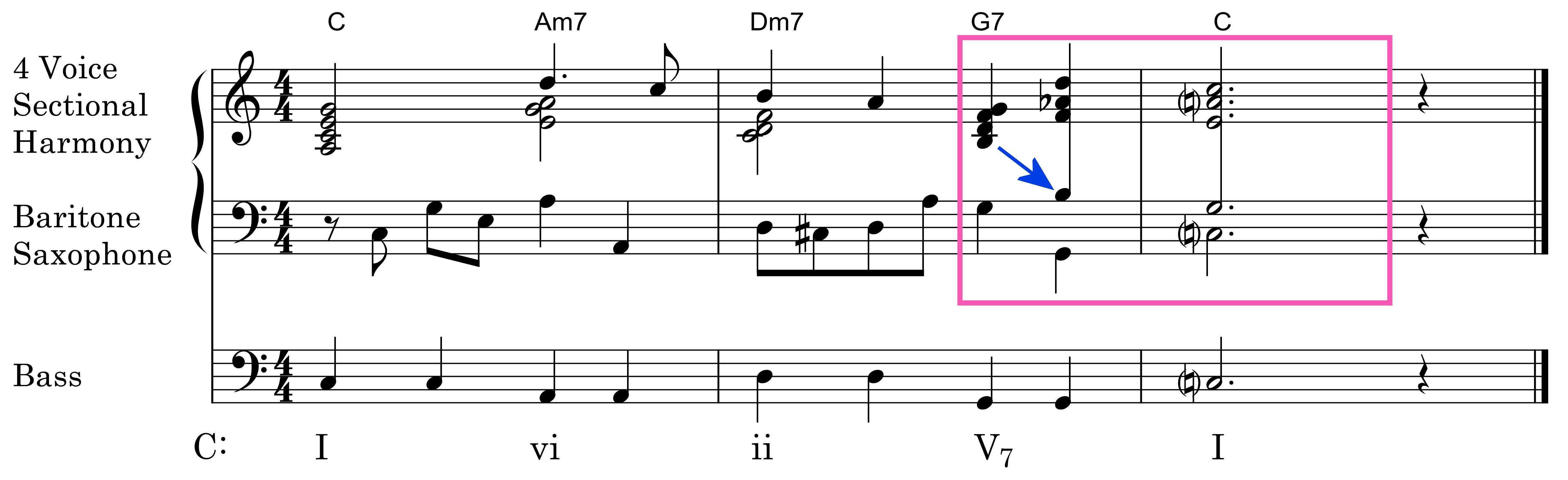 5 voice saxophone section including a baritone saxophone independently performing a bass line in five voice sectional harmony.